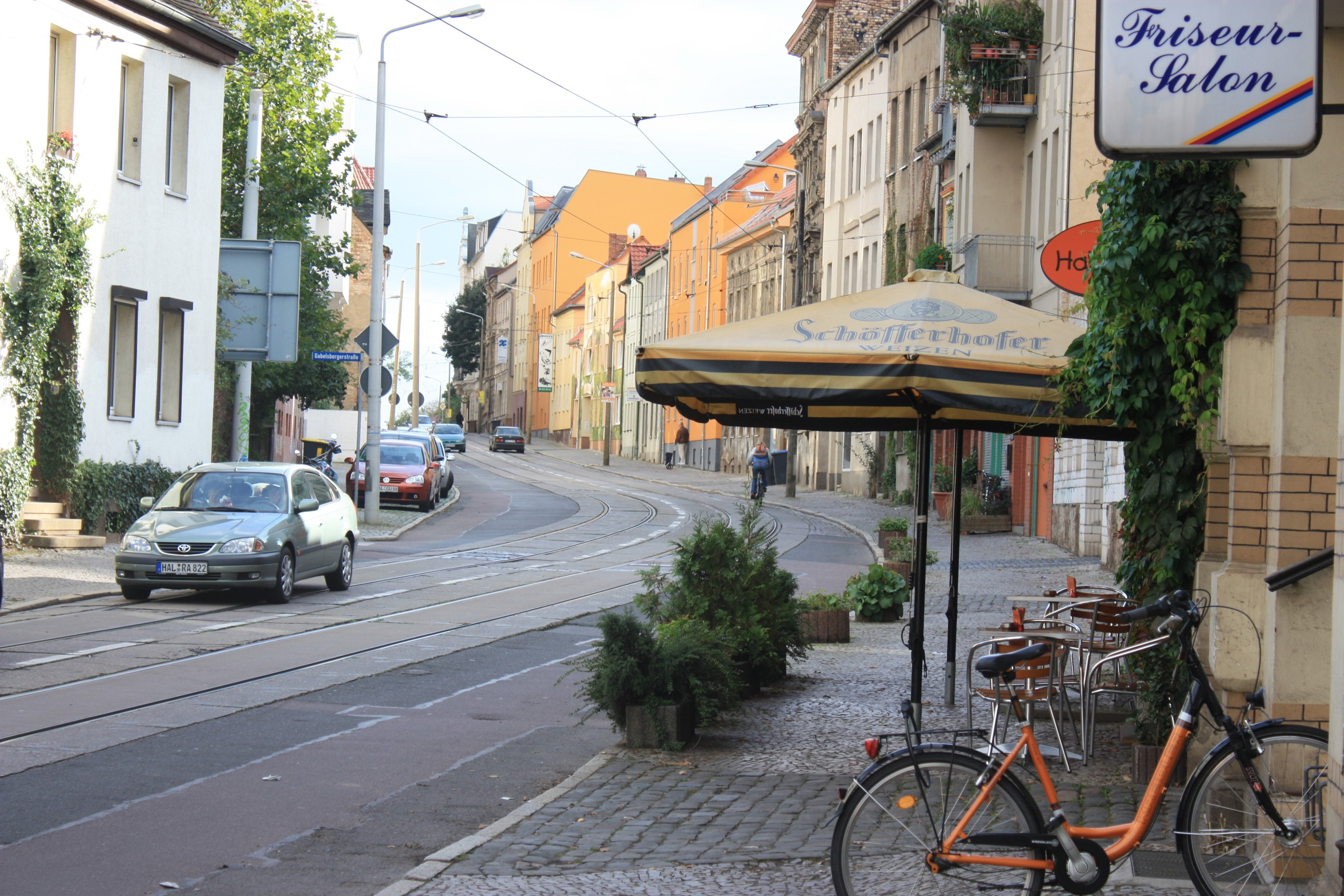 Halle (Saale), the Burgstraße